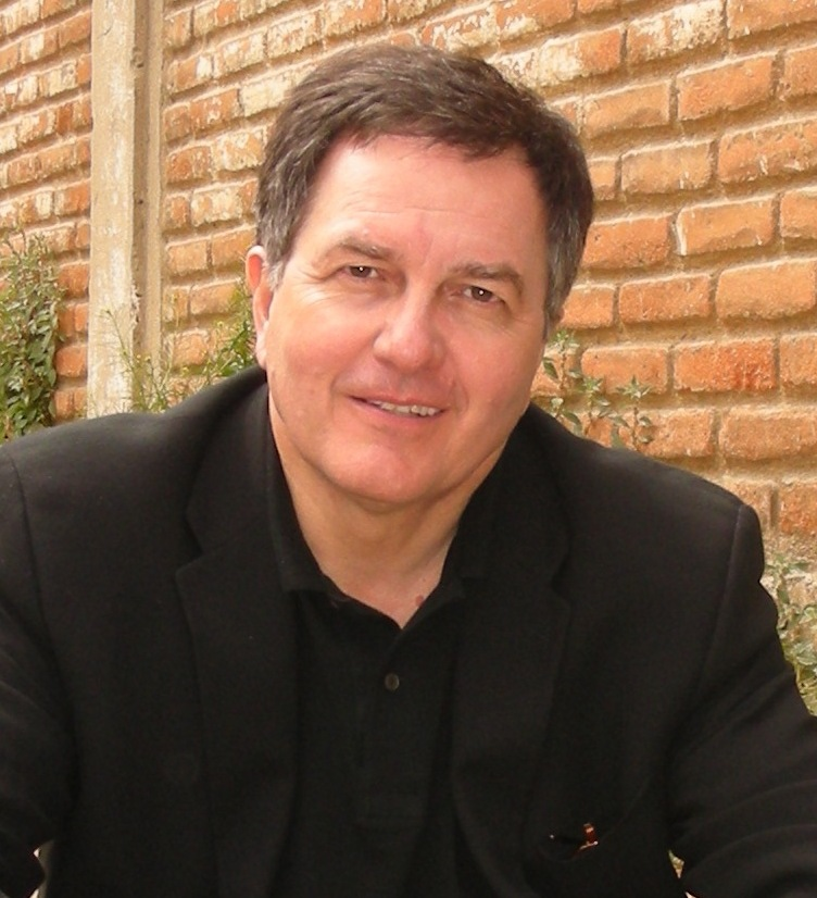 Photo of chilean writer Roberto Ampuero